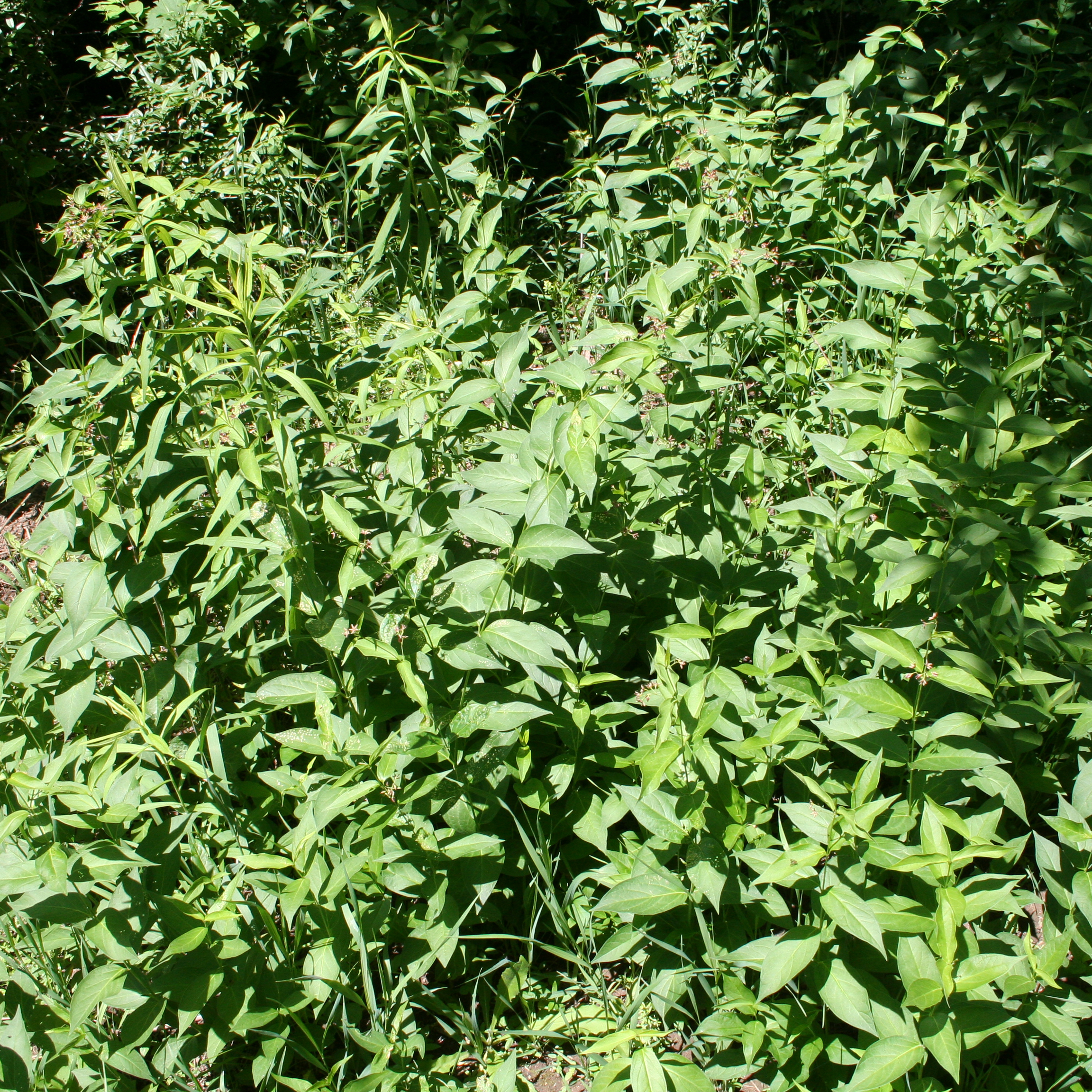 Vincetoxicum rossicum (pale swallow-wort), at the Skaneateles Conservation Area, Onondaga County, New York.